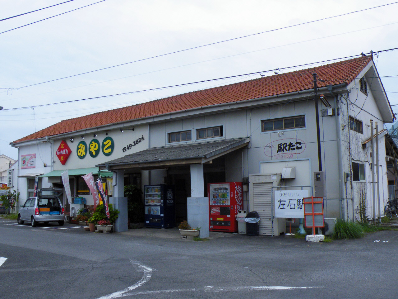 Hidariishi Station(Matsuura Railway Nishi-Kyushu Line)